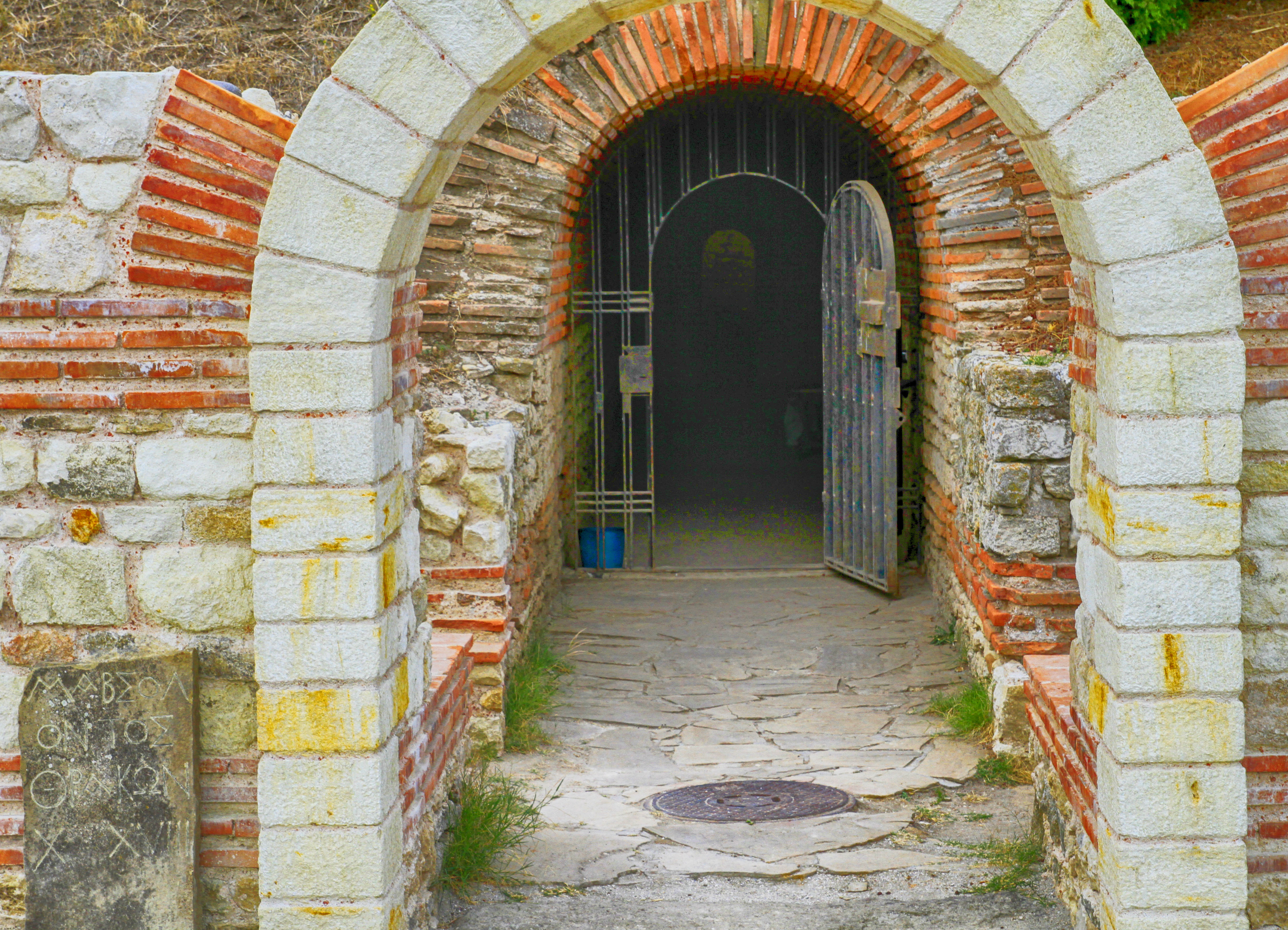 Enter in tomb in region